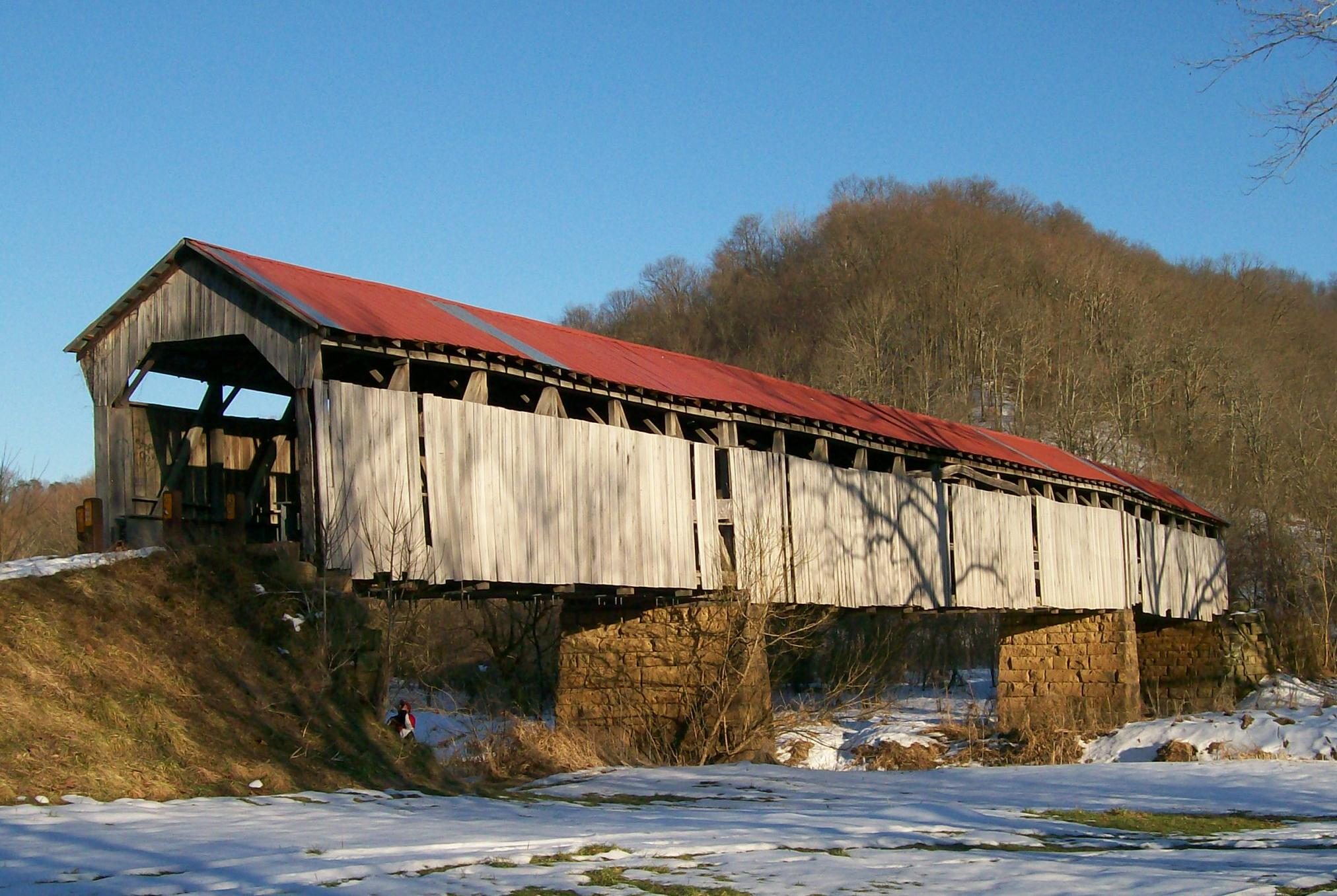 The Knowlton Covered Bridge on March 4, 2010. The bridge was placed on the NRHP in 1980 and was decommissioned shortly thereafter. The bridge is being photographed with the camera facing east.